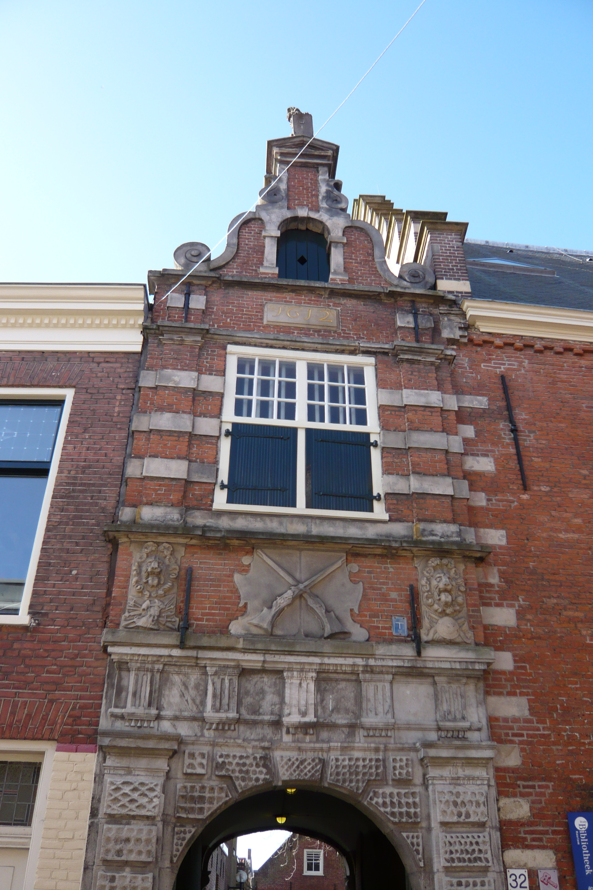 Top of the gateway to the Haarlem Public Library. Known as the "Doelenpoort", the muskets crossed refer to the old purpose of the property as target practise grounds for the Haarlem militia known as the Kloveniers schutters.